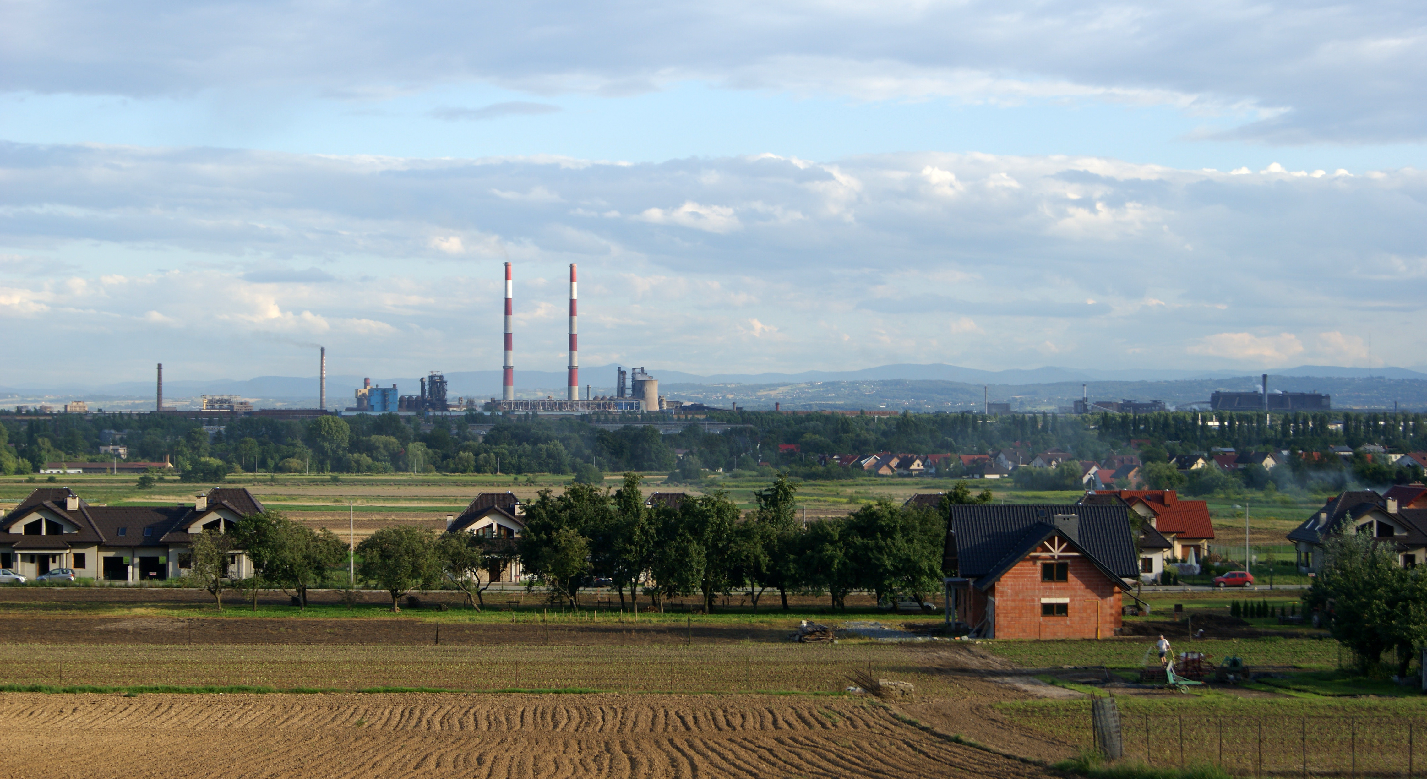 Steel mill Nowa Huta (view from N), Krakow, Poland